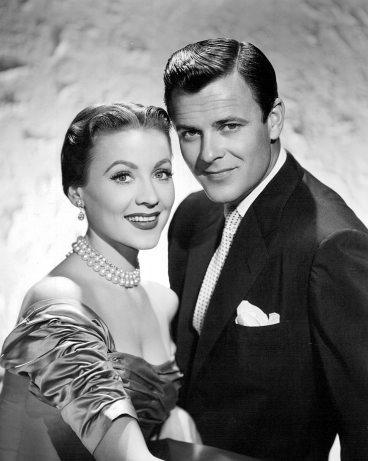 Photo of Anne Jeffreys and Robert Sterling from the television series Topper.